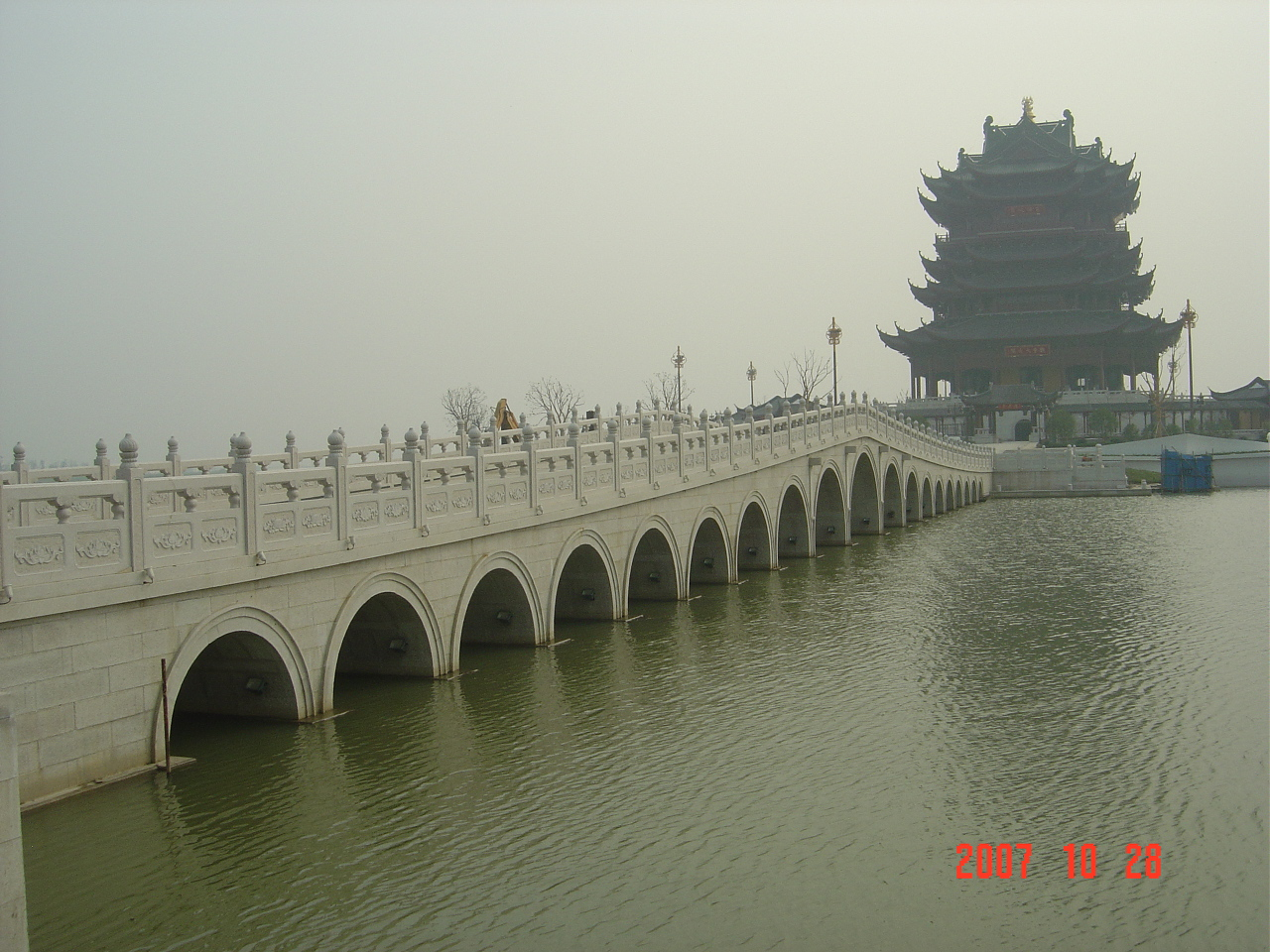 Guanyin'ge of Chongyuan Temple